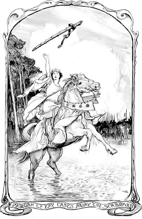 An illustration by Henry Justice Ford from King Arthur: The Tales of the Round Table (Ed. Andrew Lang, New York, Longmans, Green and Co).